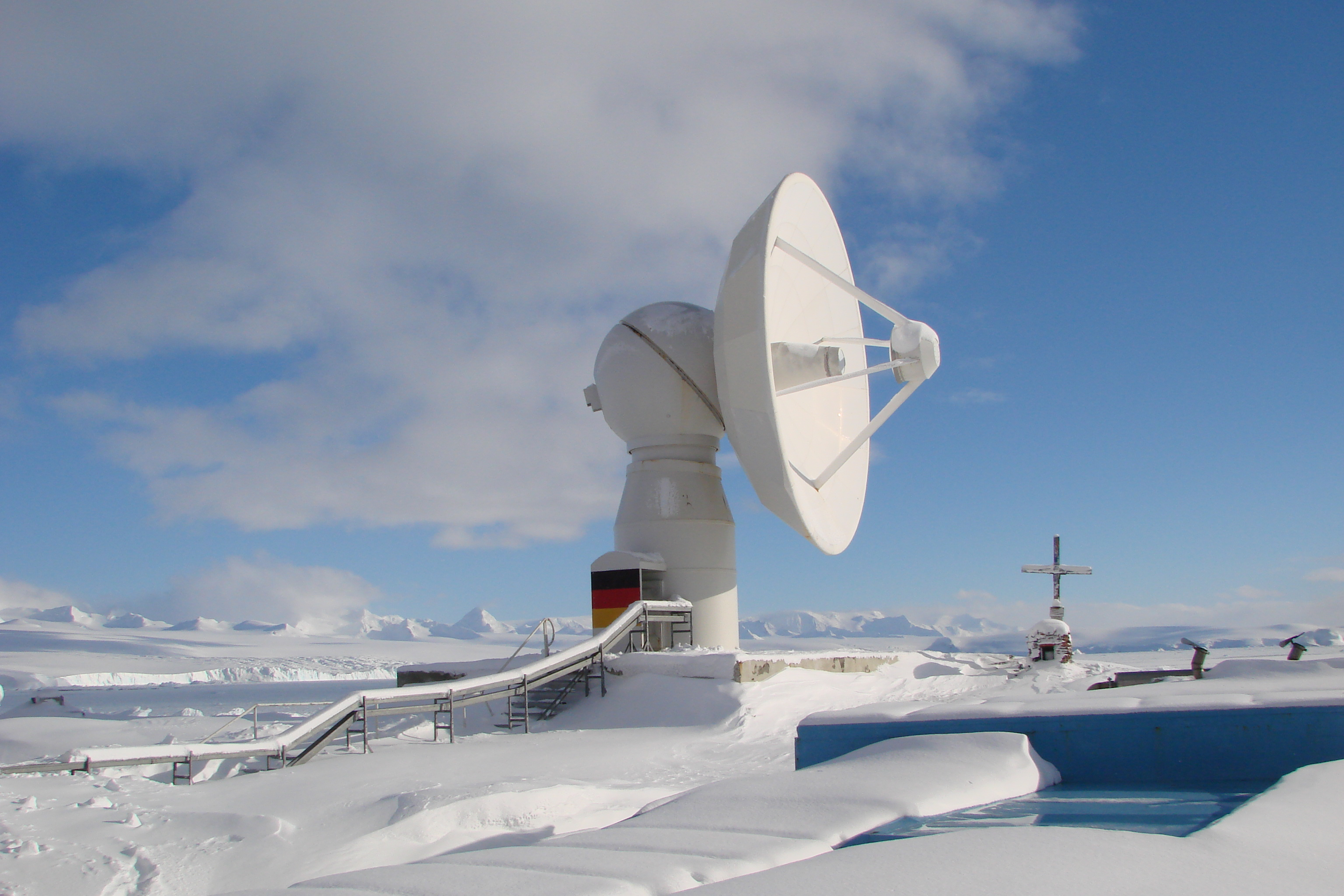 antarctic satellite ground station GARS O'Higgins